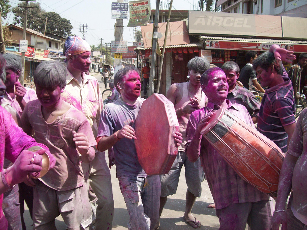 Holi celebration at Nagaon, AS, IN.